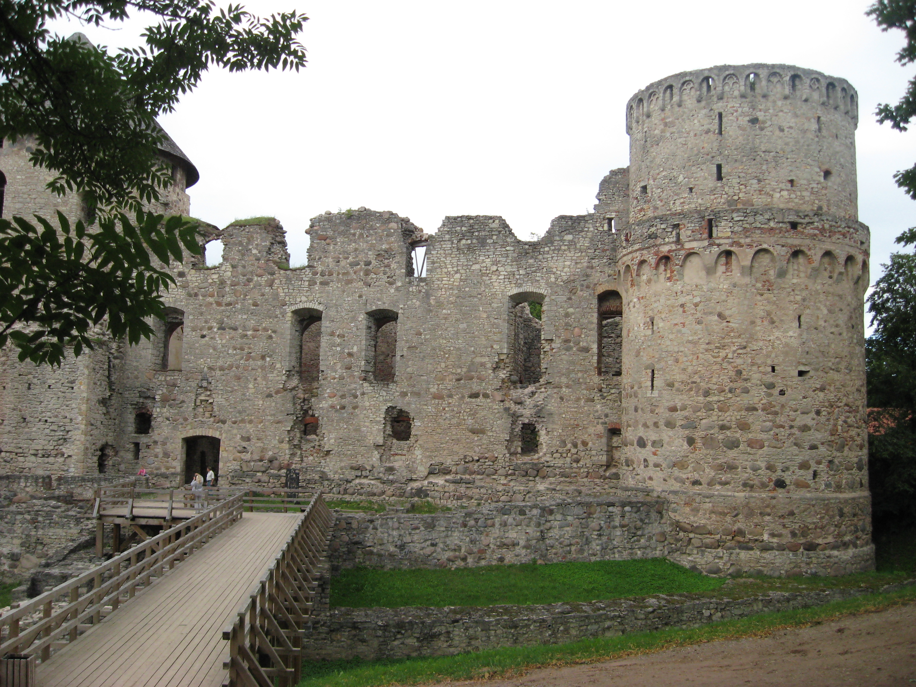 Castle of Cēsis.